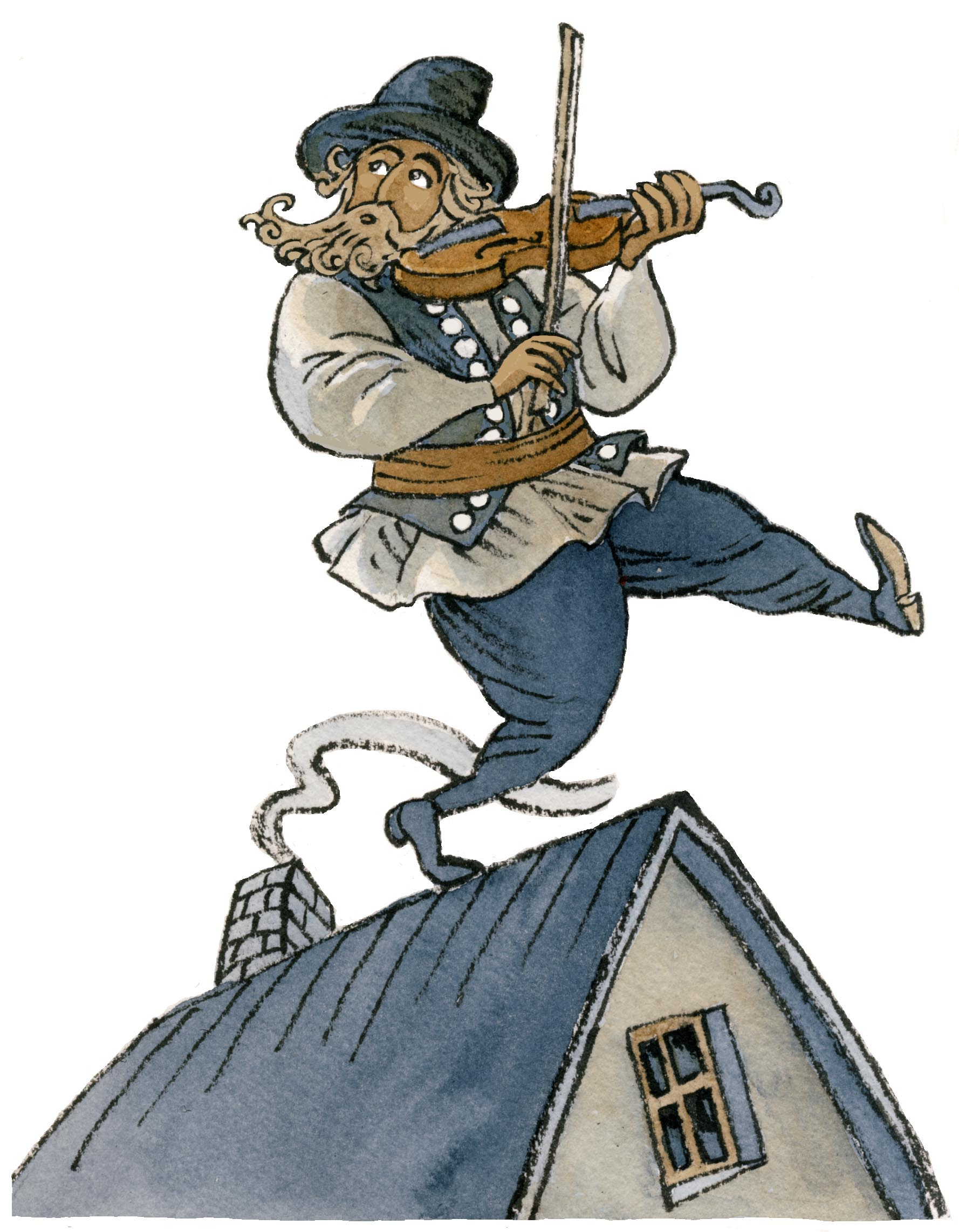 Fiddler On The Roof